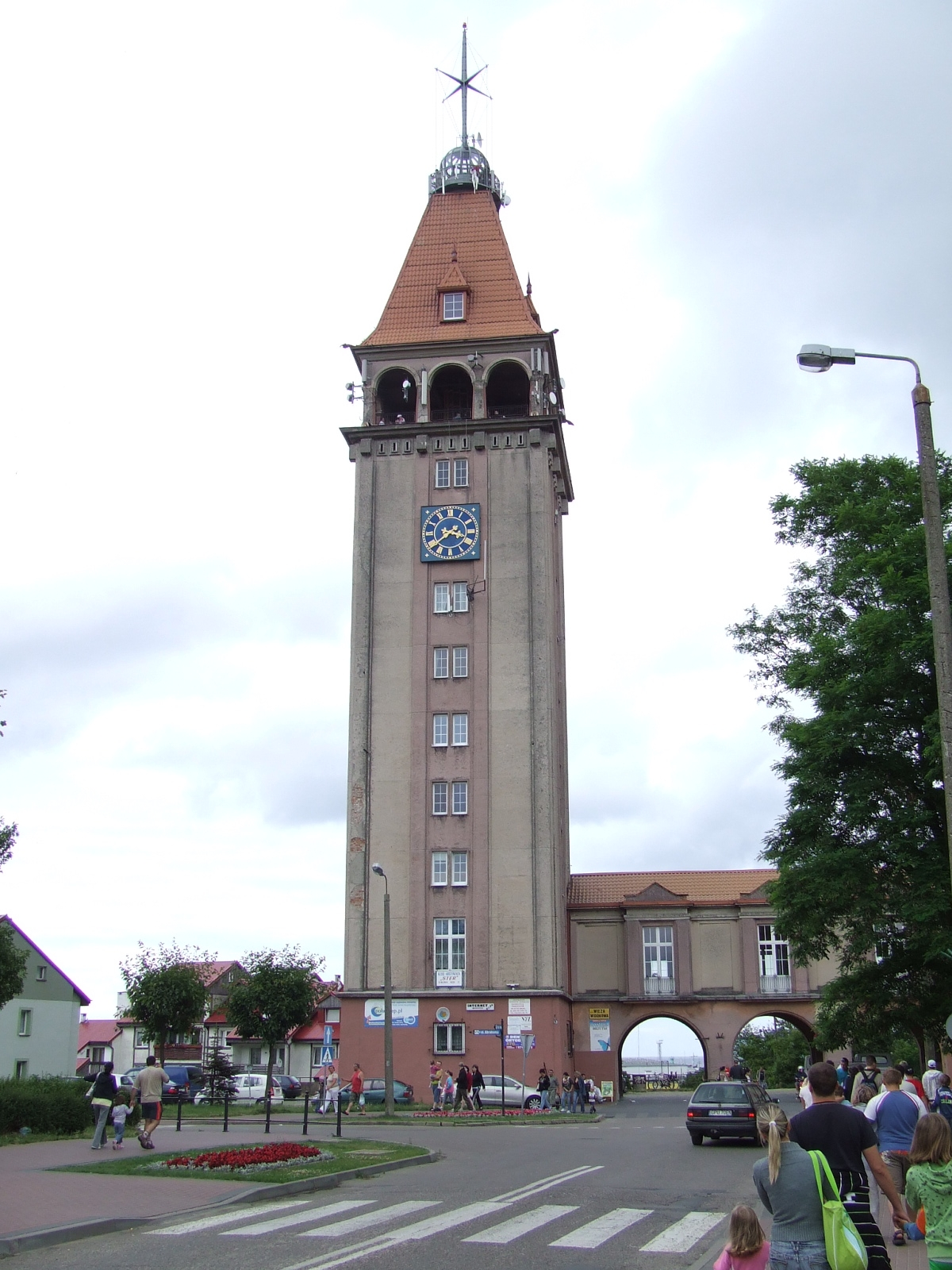 Wladyslawowo, observation tower, Poland